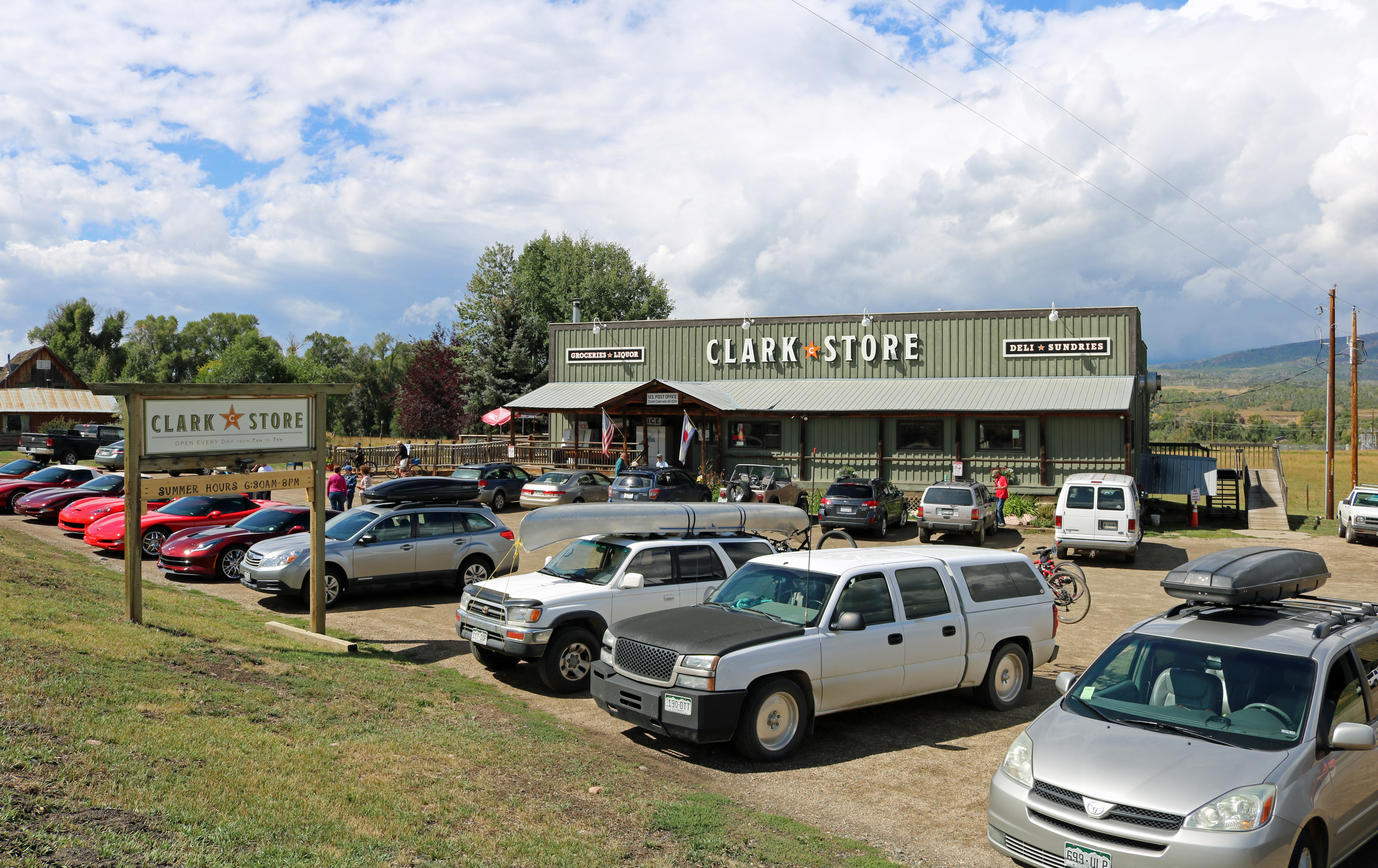 The Clark Store, located at 54175 Routt County Road 129 in Clark, Colorado. The Clark Post Office is located inside the store.